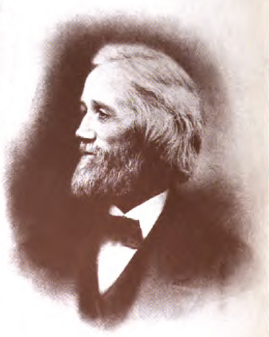 Christopher Latham Sholes, inventor of the first practical typewriter